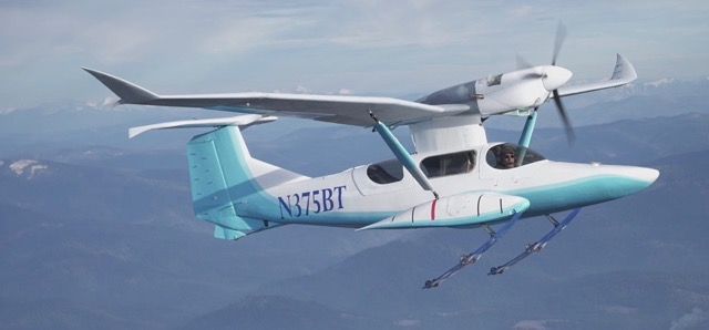 Burt Rutan's experimental SkiGull airplane, on its maiden flight, with the skis extended.